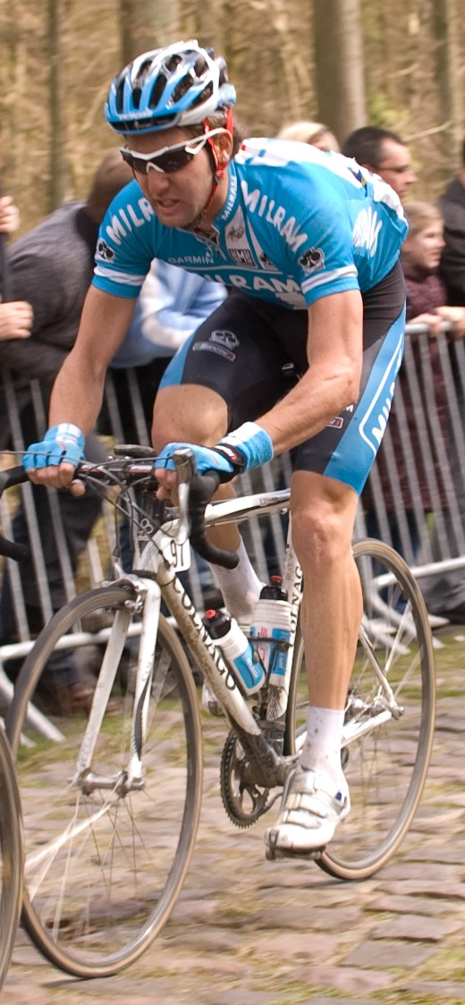 Fabio Sabatini, Paris-Roubaix 2008